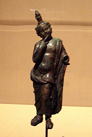 Statue of Hor-pa-chered, Begram, 1-2nd century CE. Musee Guimet. Personal photograph.